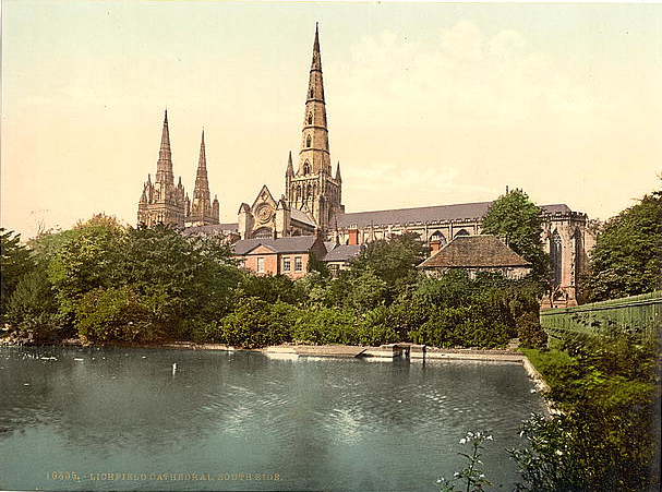 Photochrom print by Photoglob Zürich, between 1890 and 1900. Minster Pool and Lichfield Cathedral c.1890